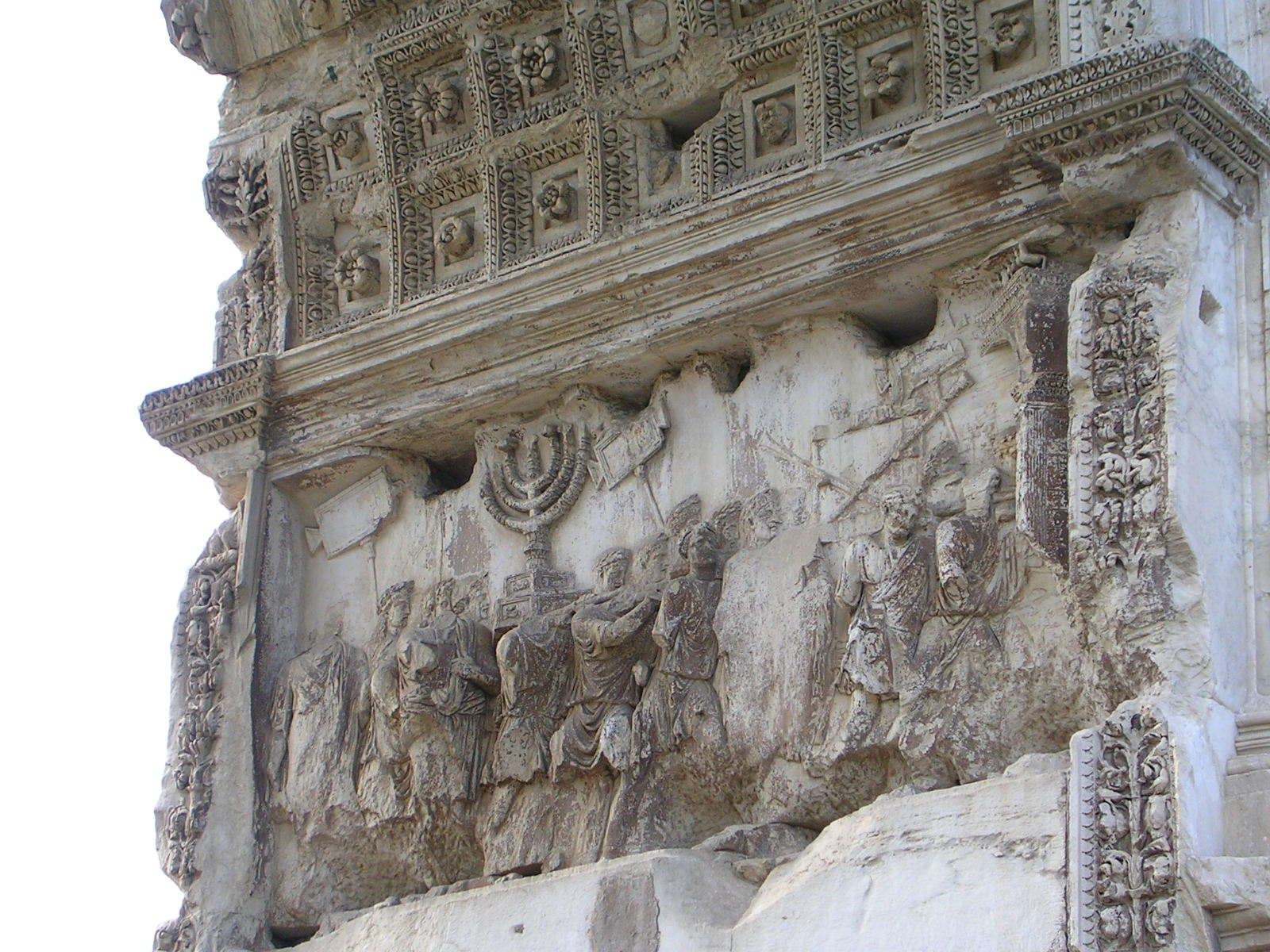 In this part of Titus' triumphal procession (from the Arch of Titus in Rome), the treasures of the Jewish Temple in Jerusalem are being displayed to the Roman people. Hence the Menorah. Captured using a Nikon Coolpix E3200